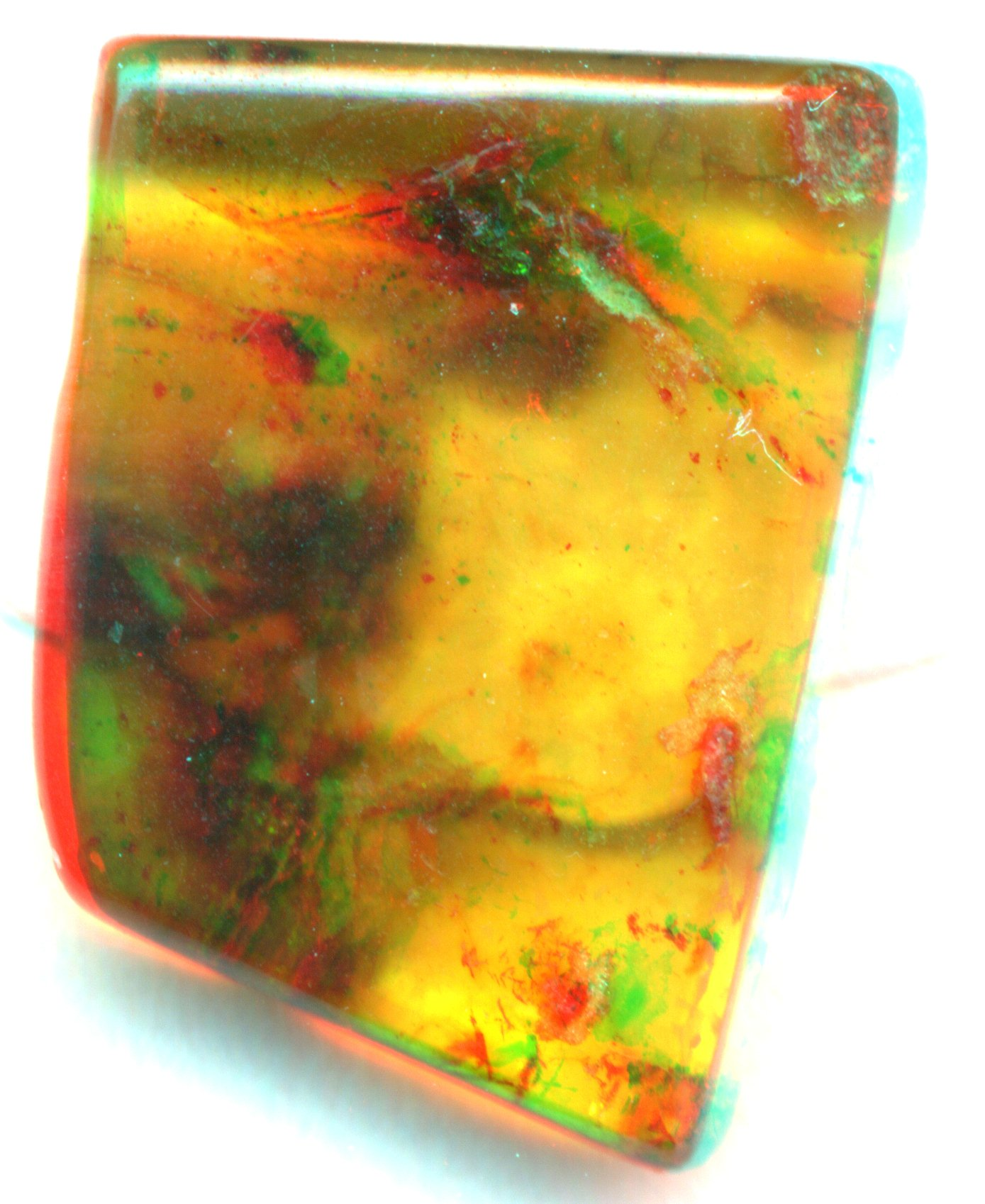 3D anaglyph image of Haley's amber taken with flatbed scanner